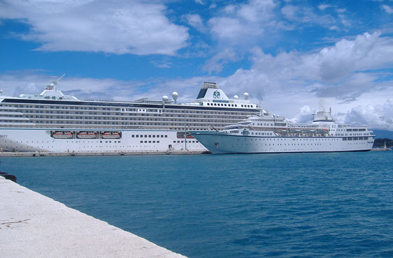 Aegean Odyssey moored in Corfu, showing its scale alongside a modern cruise liner, the 'Crystal Serenity'